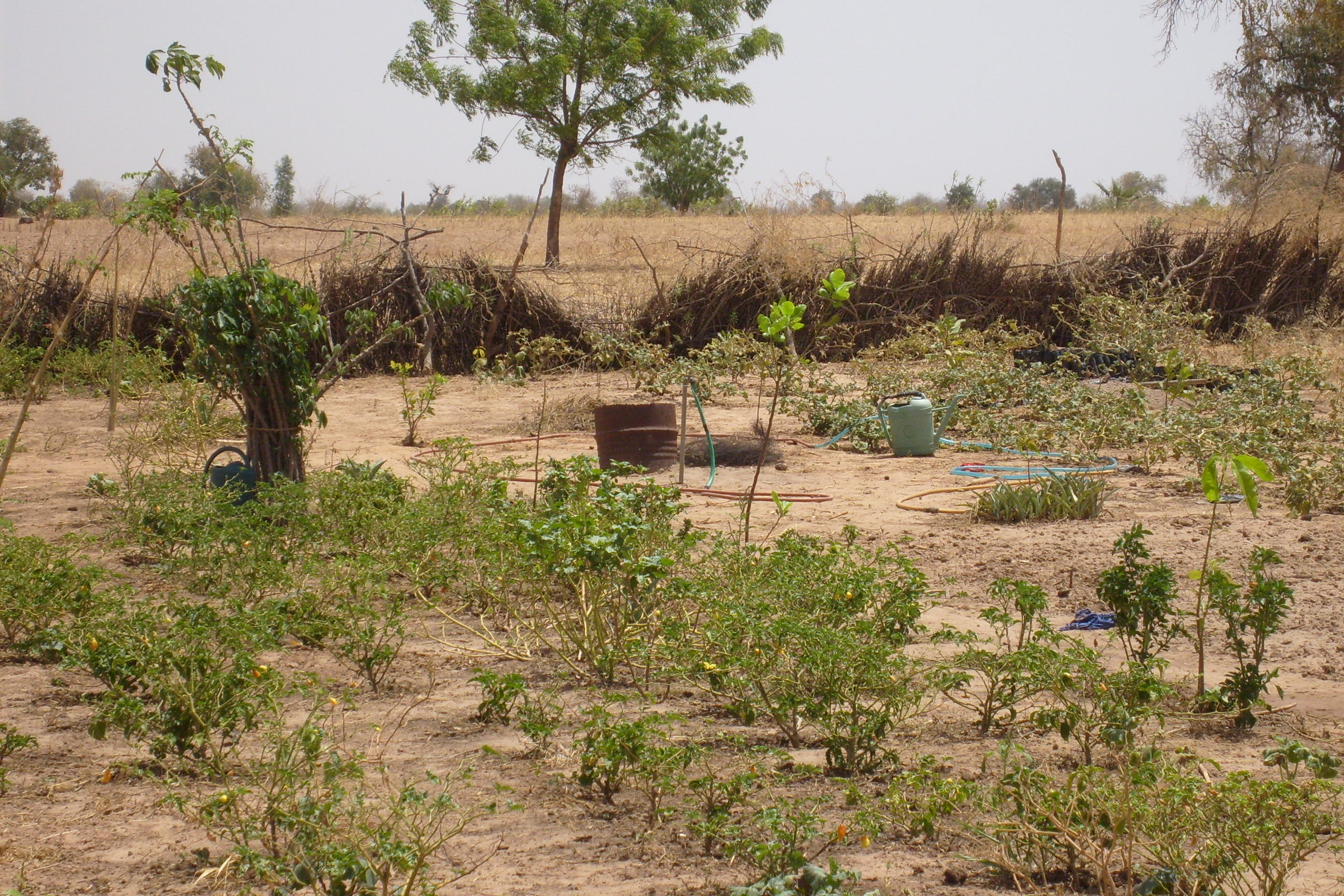 Agroforestry in Kaffrine (Senegal)